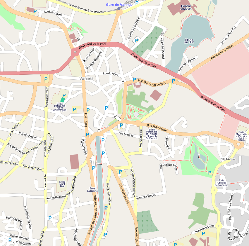 City map of Vannes Morbihan france